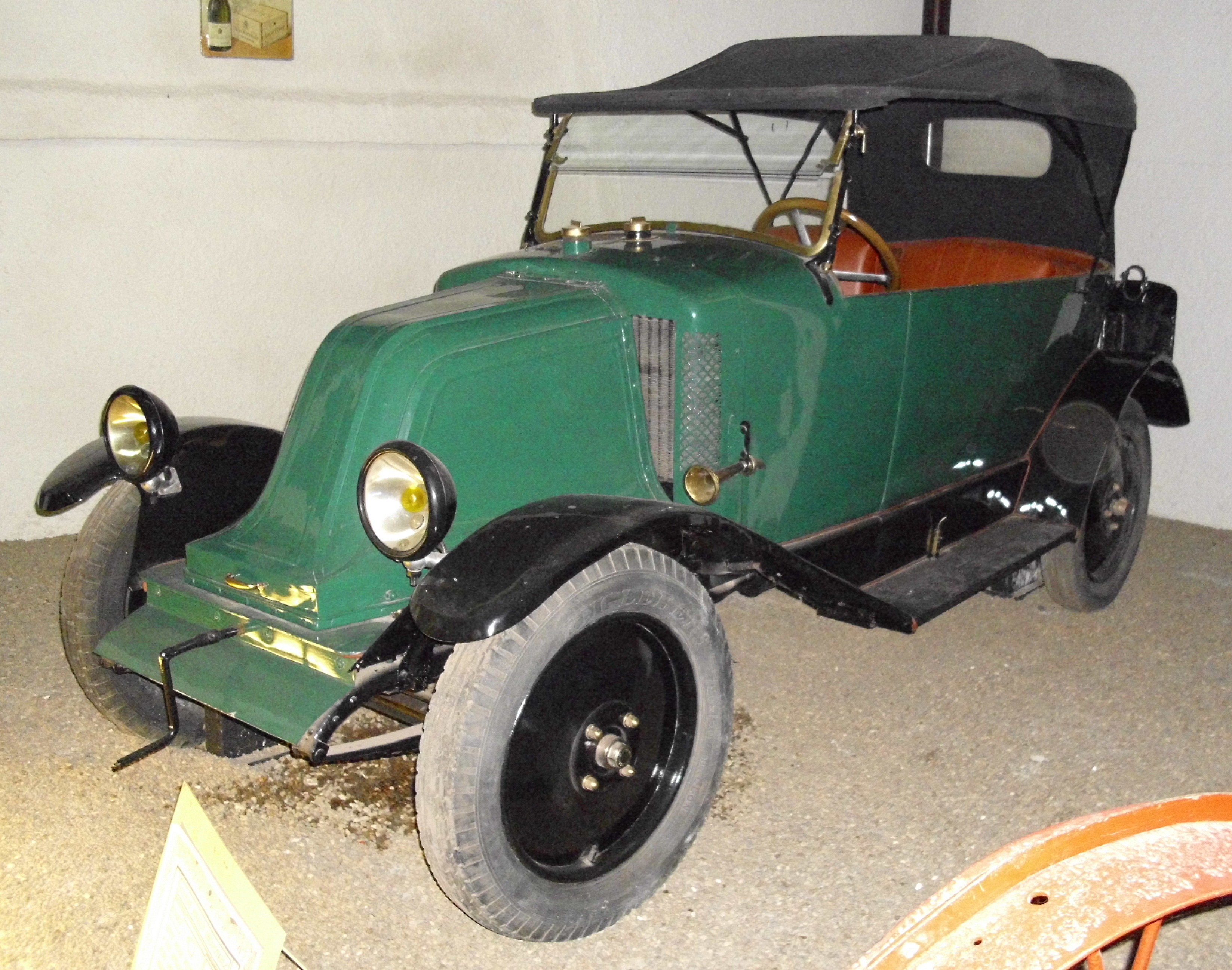 Renault Type KJ Torpedo 1923